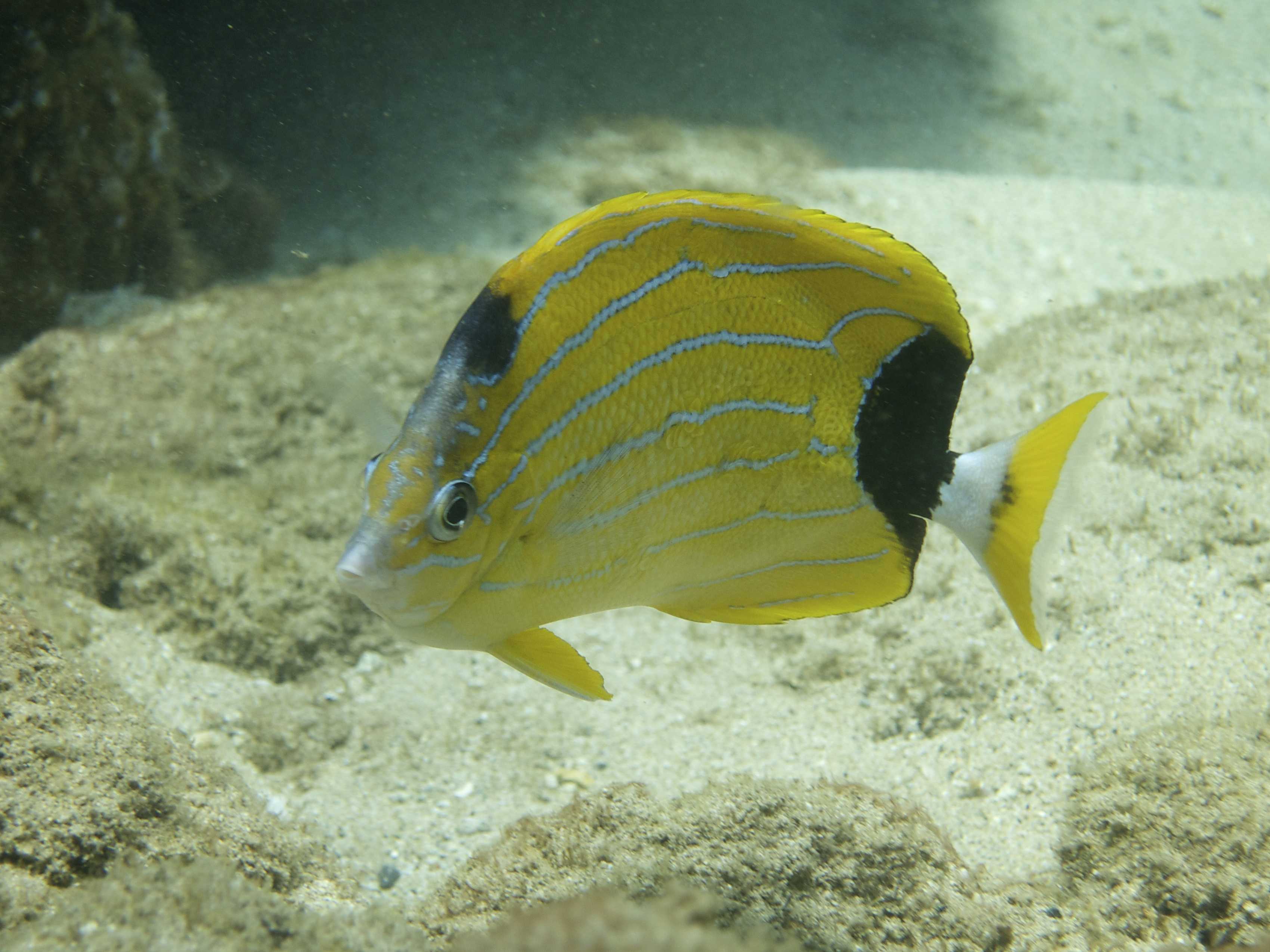 Airport Beach, Maui